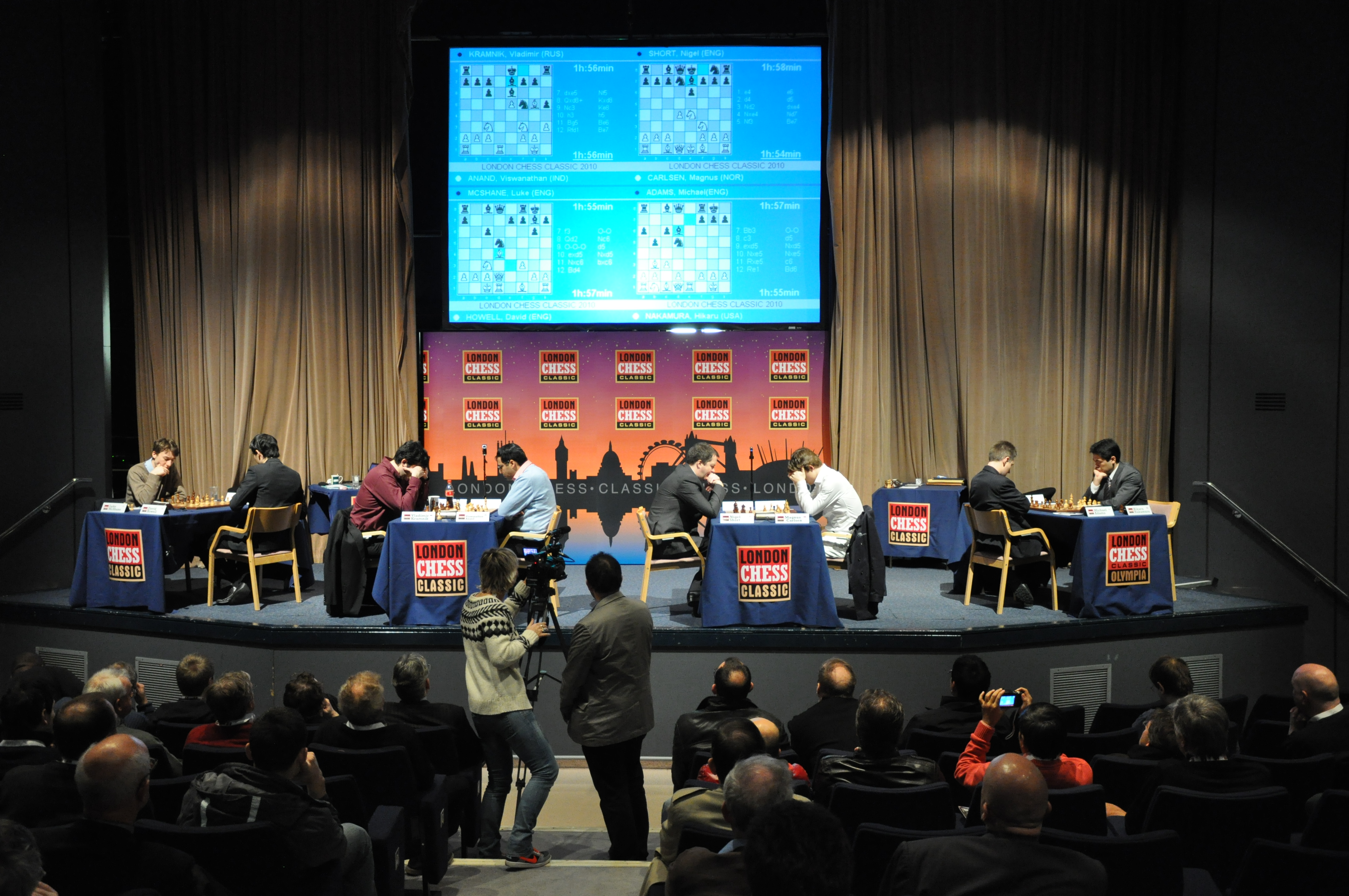 London Chess Classic 2010